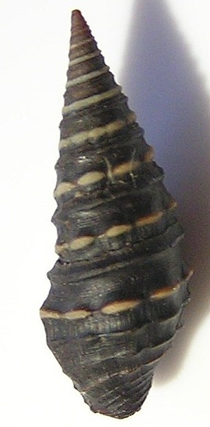 Zonulispira chrysochildosa Shasky, 1971 , a turrid snail from the family Pseudomelatomidae; Panama